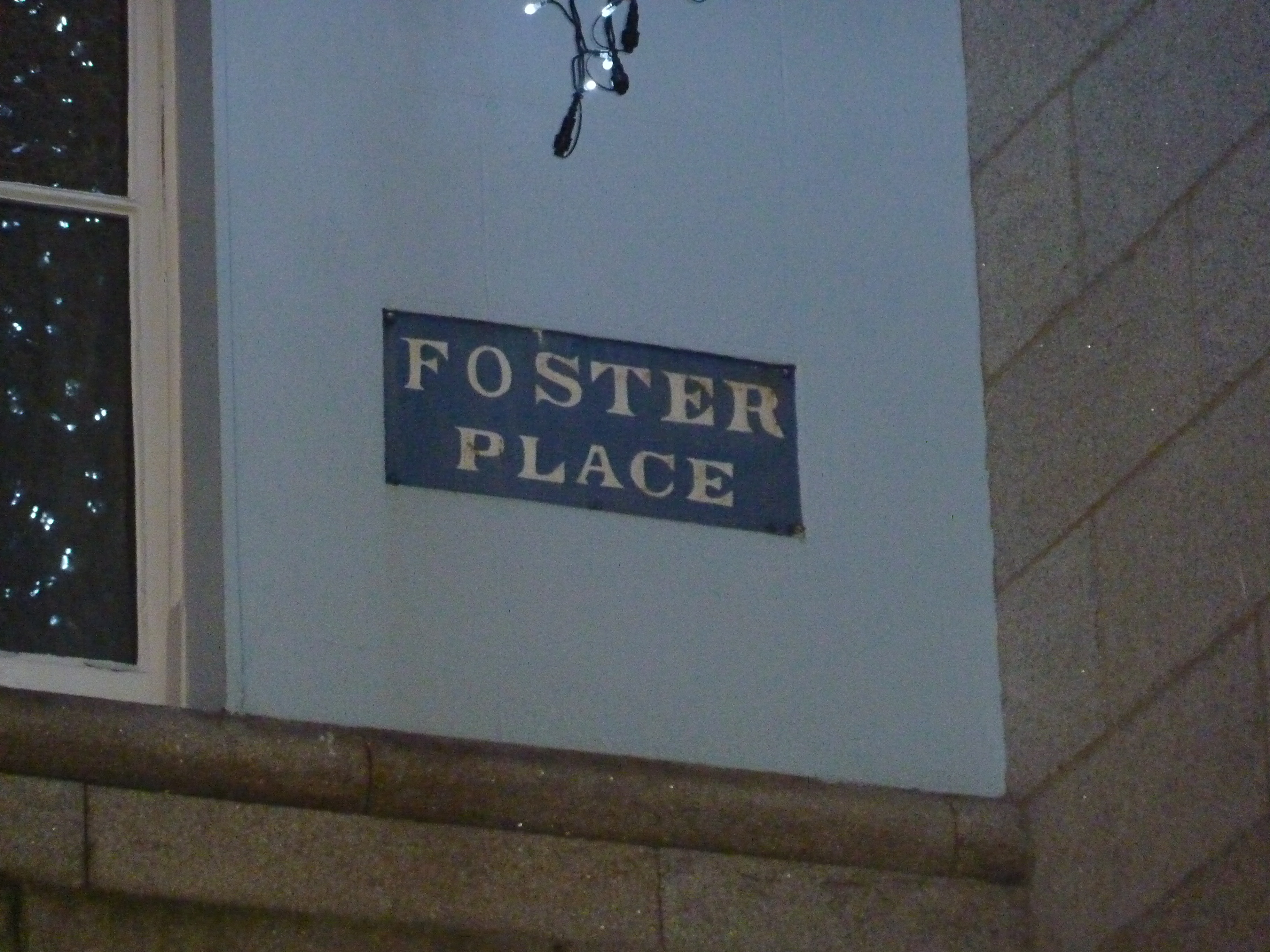 Foster Place, Dublin, street sign, named after John Foster